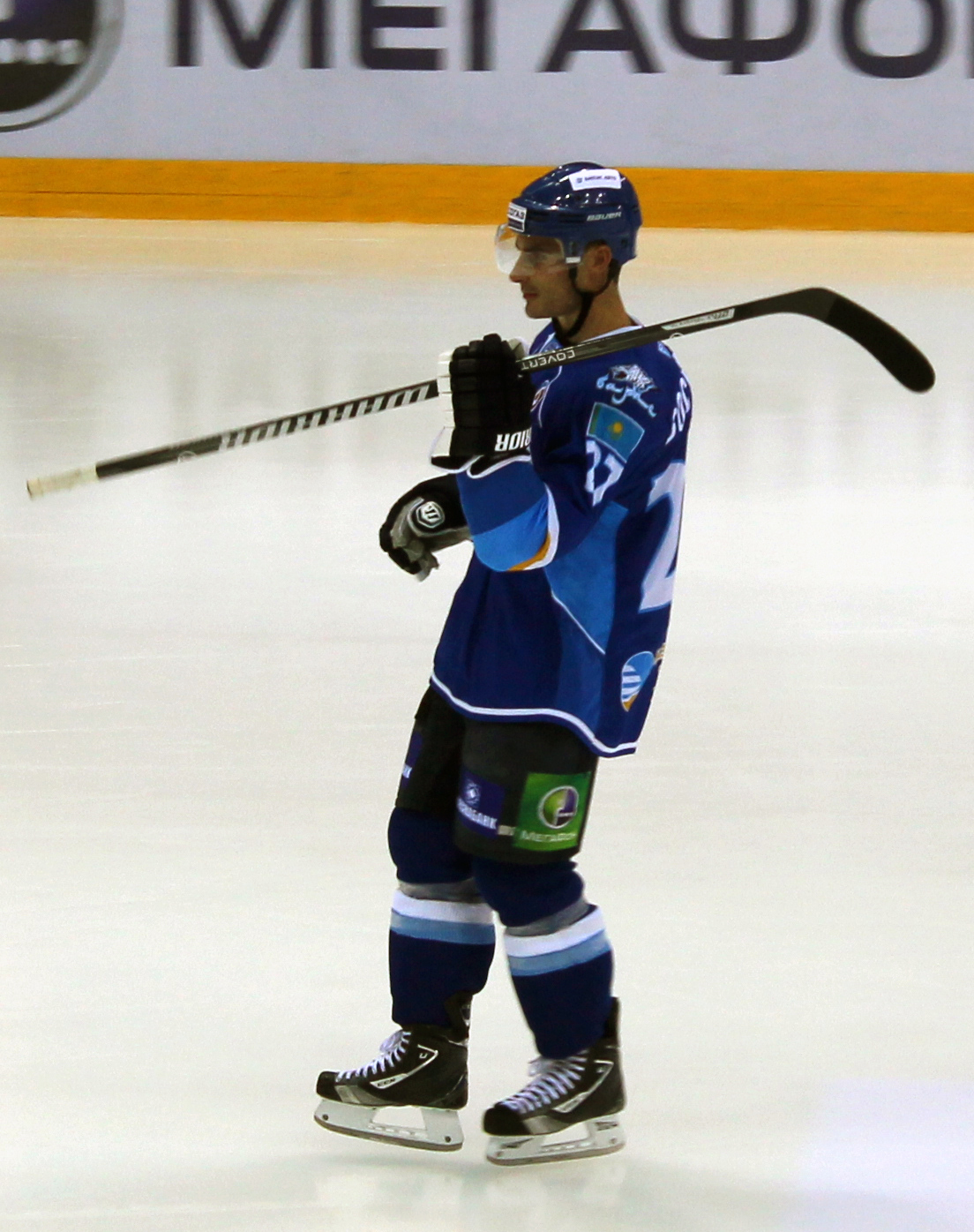 Brandon Bochenski playing for Barys Astana.